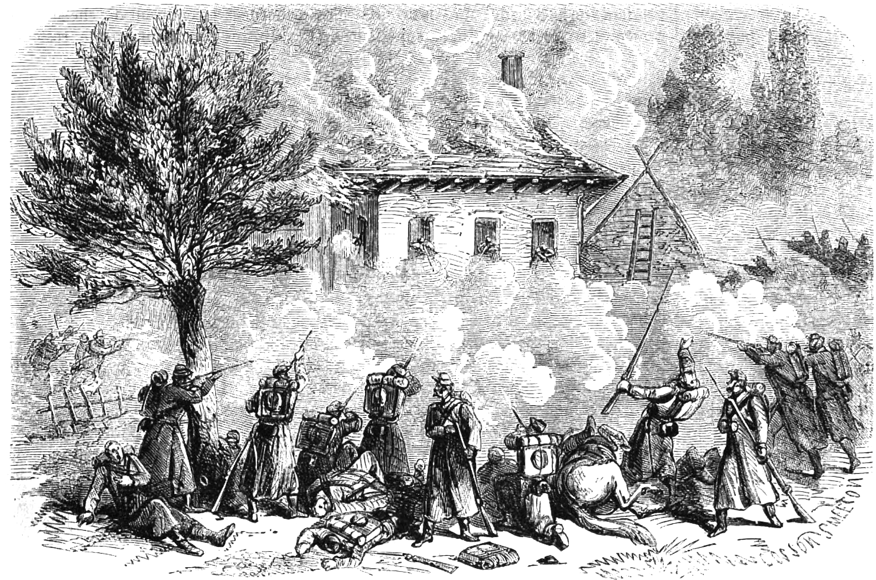 Battle of Glanów 1863